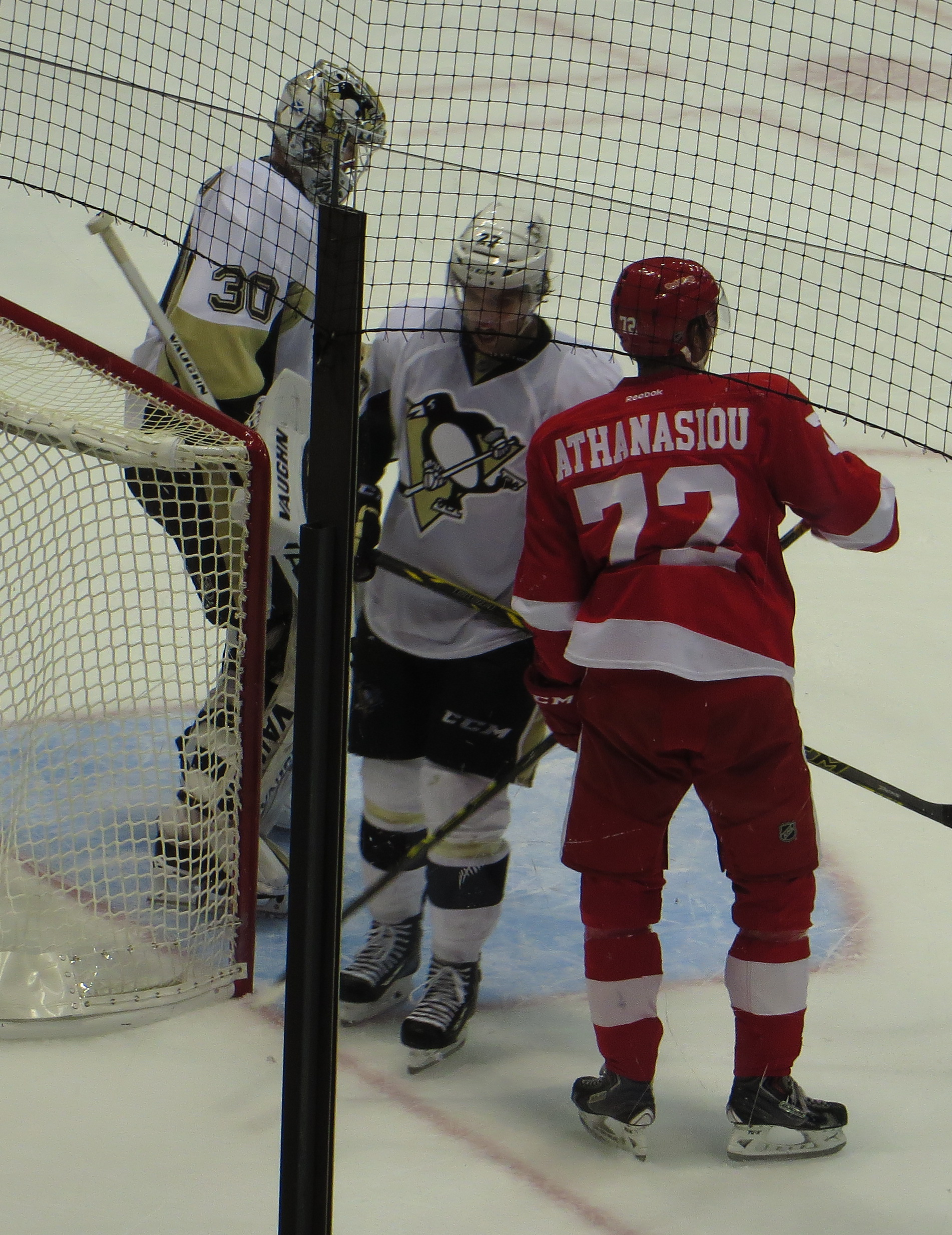 Andreas Athanasiou (born August 6, 1994) is a Canadian ice hockey player for the Grand Rapids Griffins of the American Hockey League (AHL). Athanasiou was drafted 110th overall by the Detroit Red Wings in the 2012 NHL Entry Draft. On November 20, 2013, the Detroit Red Wings signed Athanasiou to a three-year, entry-level contract. On April 15, 2014, Athanasiou was assigned to the Grand Rapids Griffins, and made his AHL debut on April 18, in a game against the Lake Erie Monsters. During the 2014–15 season, in his first full professional season, he posted the best point-per-game average, 0.58, among Griffins rookies, recording 16 goals and 16 assists in a campaign that was limited to 55 games played due to a broken jaw. He finished fifth on Grand Rapids in postseason scoring, recording five goals and four assists in 16 postseason games. Athanasiou made his NHL debut for the Red Wings on November 8, 2015 in a game against the Dallas Stars. On November 10, in his second NHL game, Athanasiou scored his first career NHL goal against Braden Holtby of the Washington Capitals. On February 5, 2016, Athanasiou was recalled by the Detroit Red Wings. Prior to being recalled, he recorded eight goals and eight assists in 26 games for the Griffins. On April 30, 2016, Athanasiou was assigned to the Grand Rapids Griffins. During the 2015–16 season, Athanasiou recorded nine goals and five assists in 37 games for the Red Wings, while averaging 9:01 of ice time.